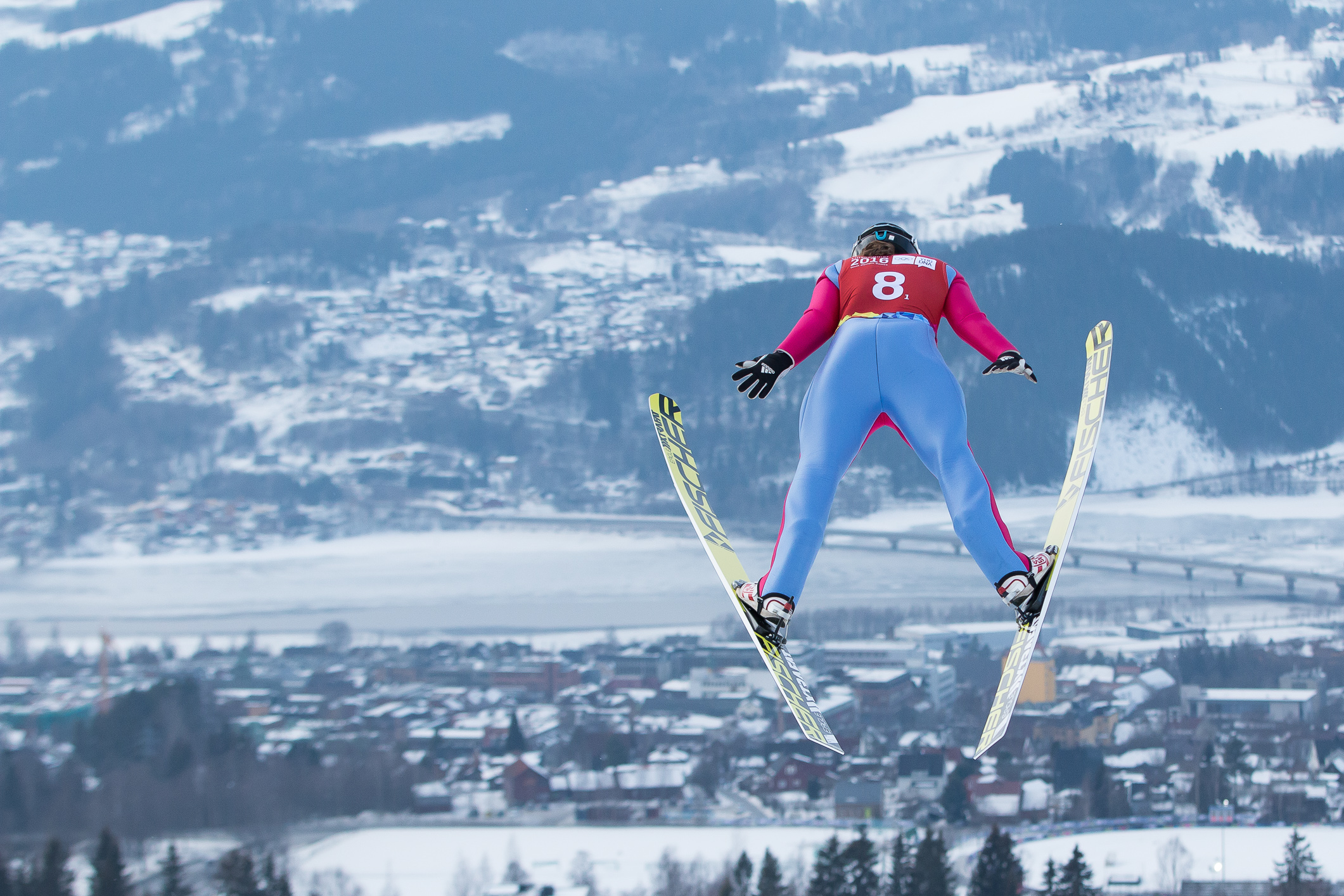 Ski jump: Mixed Team Competition - Anna Odine Strøm (Norway) taken on: 2016.02.18 13:29 Photo: Vegar S Hansen / Lillehammer 2016